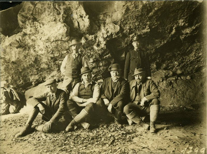 Entrance of Legény Cave. Pilis Mountains, Hungary.